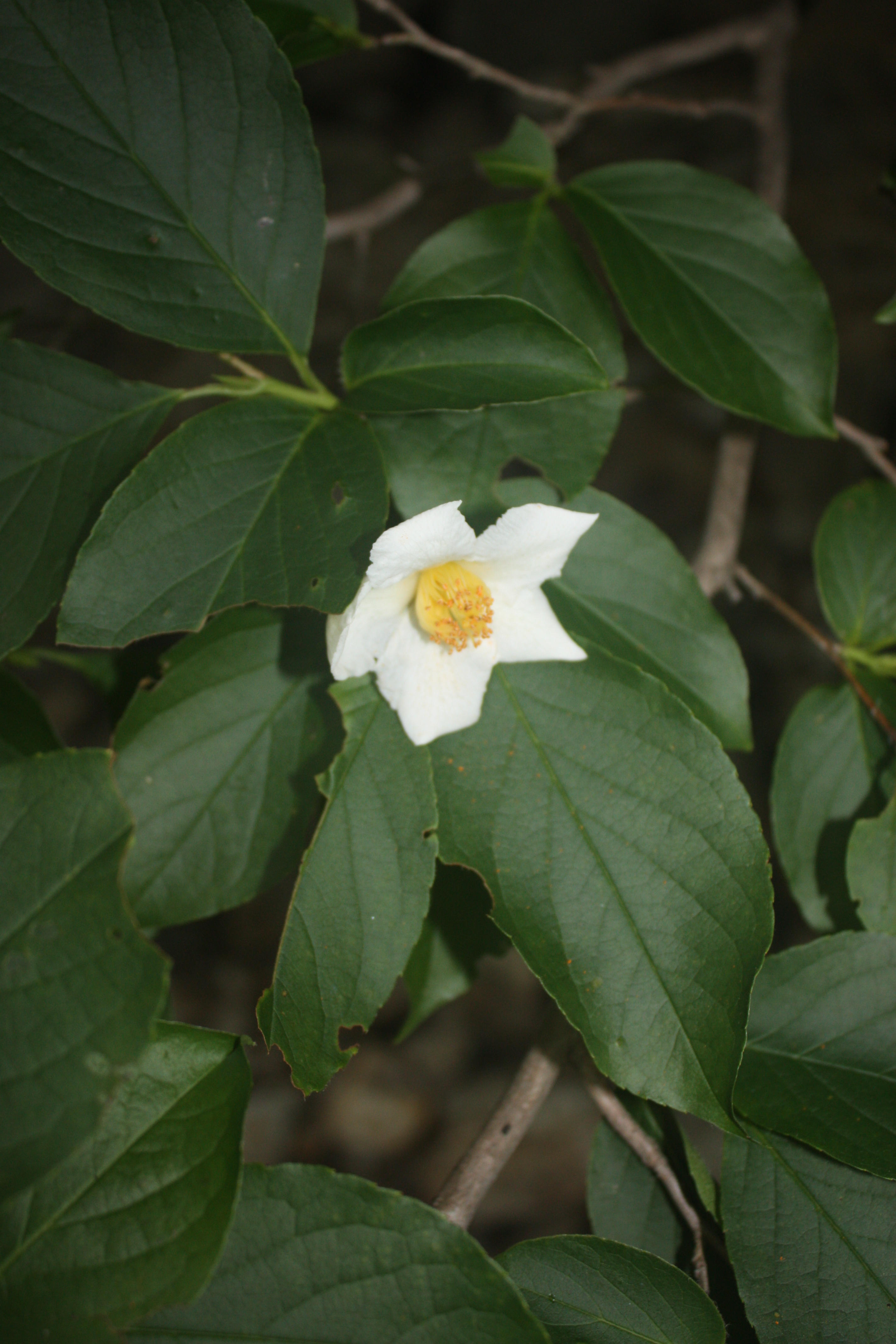 Stewartia pseudocamellia, Baemsagol valley, Jirisan, South Korea